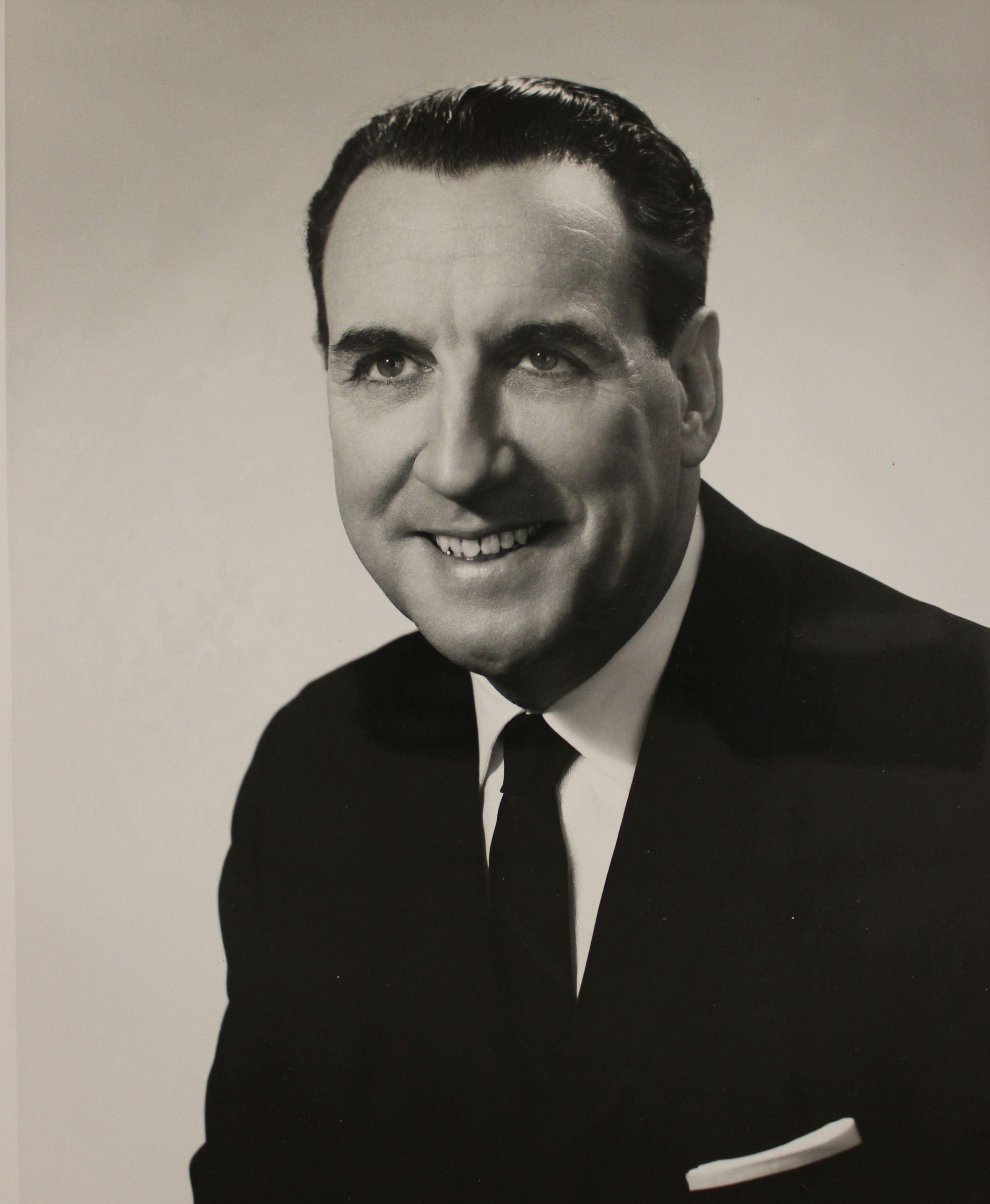 This is photograph of Governor John Dempsy with the inscription, "To Al O'Connor With all my best wishes to a good friend. John Dempsey Gov of Conn."